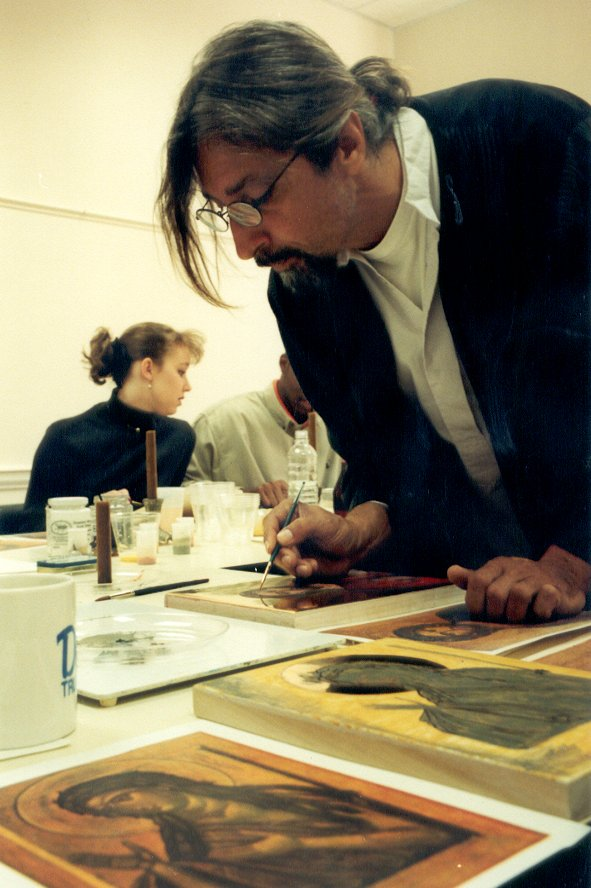 Own work